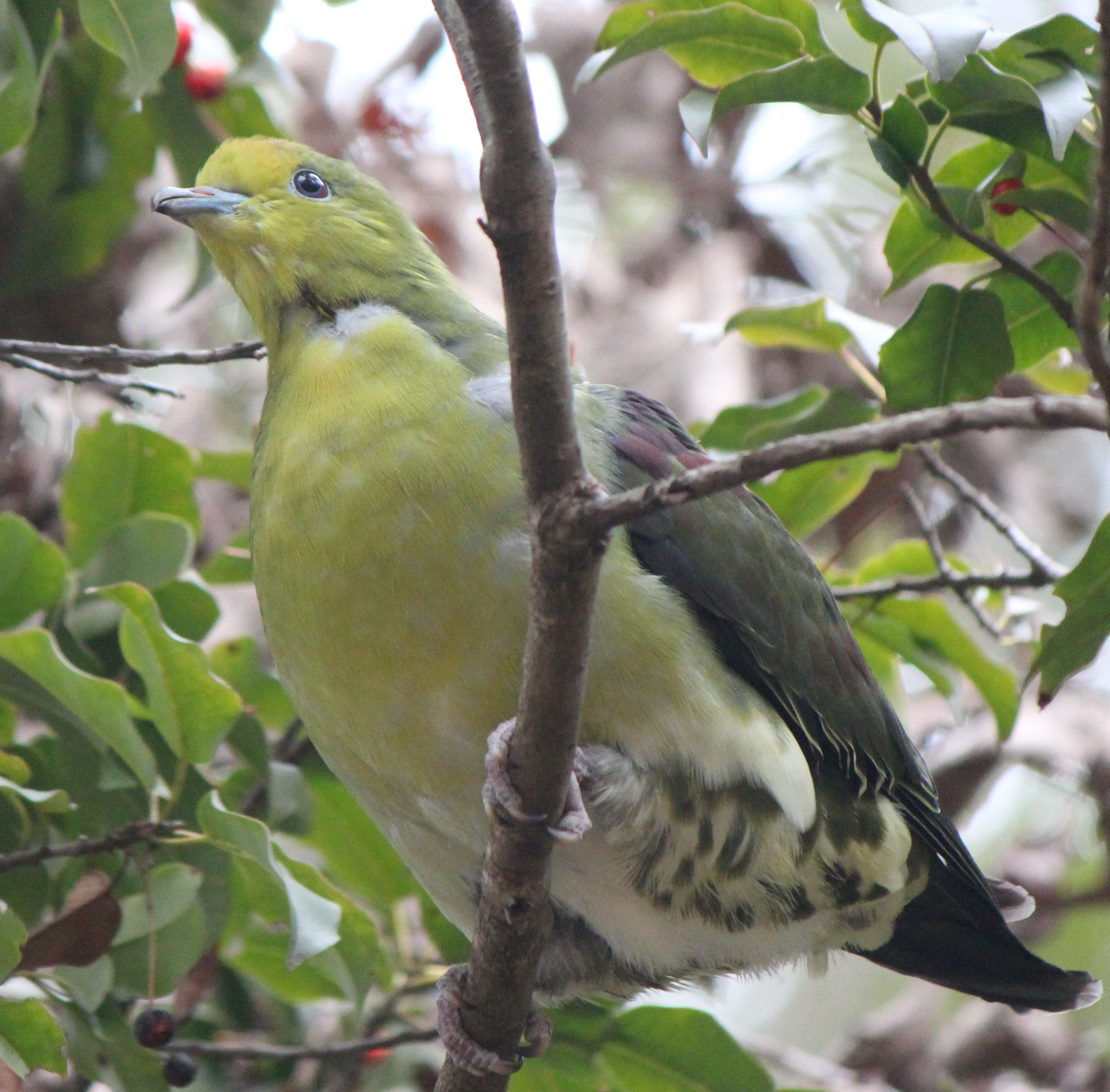 White-bellied Green Pigeon (Treron sieboldii) eating fruits of Ilex pedunculos, in Aichi prefecture, Japan.